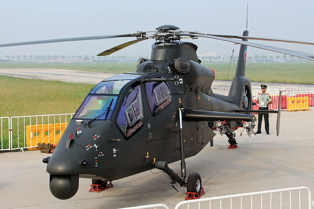 Static display at 2013 China Helicopter Expo. Z-19 is the "AH" version of Z-9 Haitun/Dauphin. Regarding this fact, the Chinese military fans nickname Z-19 as "Cobrauphin" - the "Dauphin" born like what "(AH-1) Cobra" was. (courtesy of the photographer)